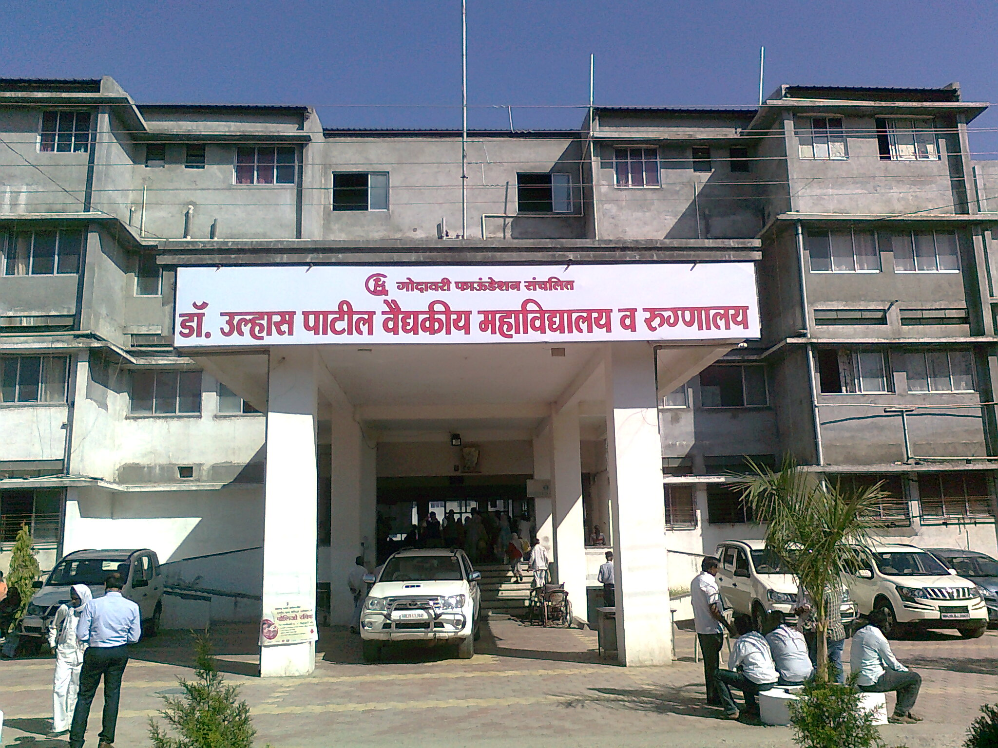 Dr. Ulhas Patil Medical College And Hospital at Jalgaon, India